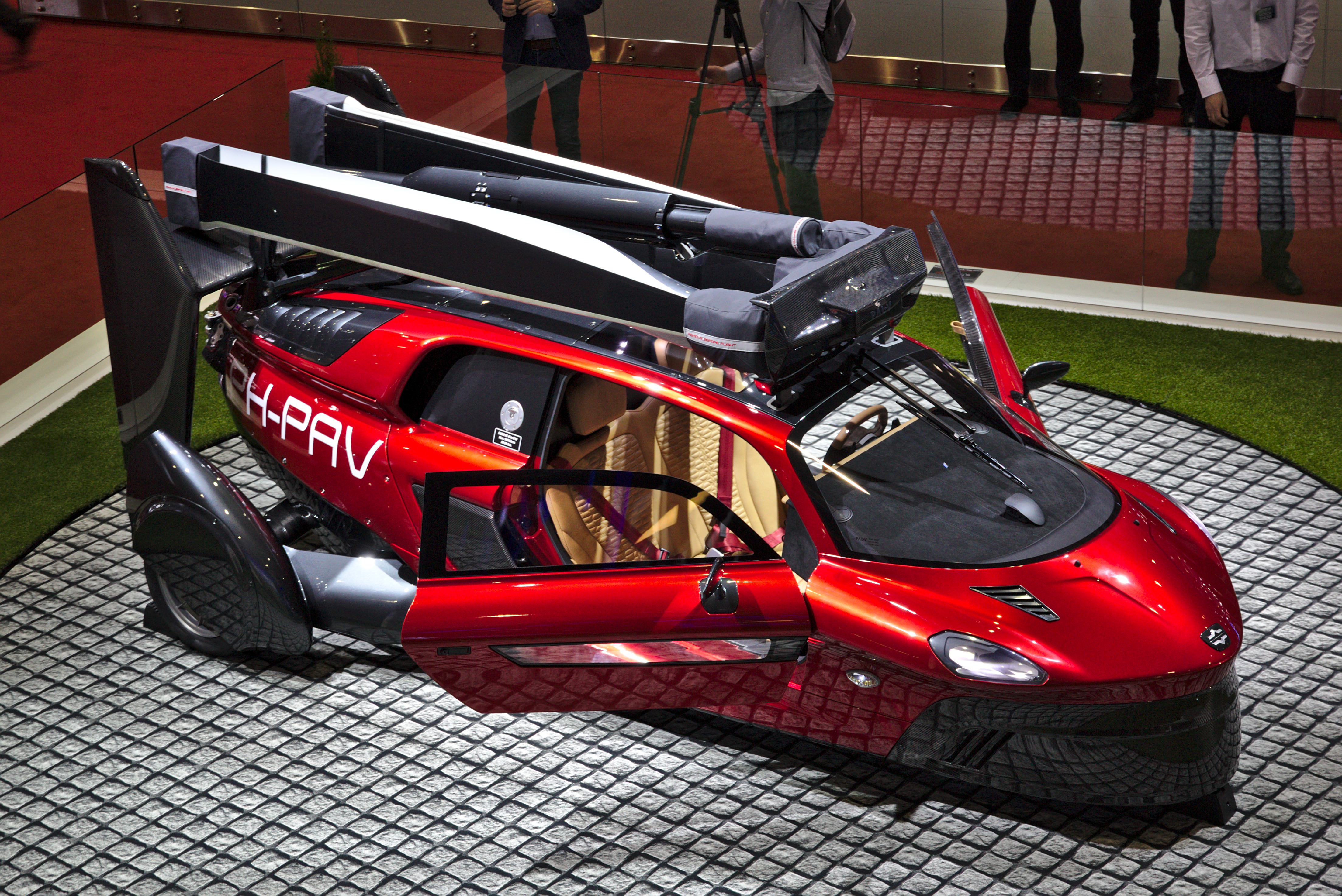 Pal-V at Geneva Motorshow 2018